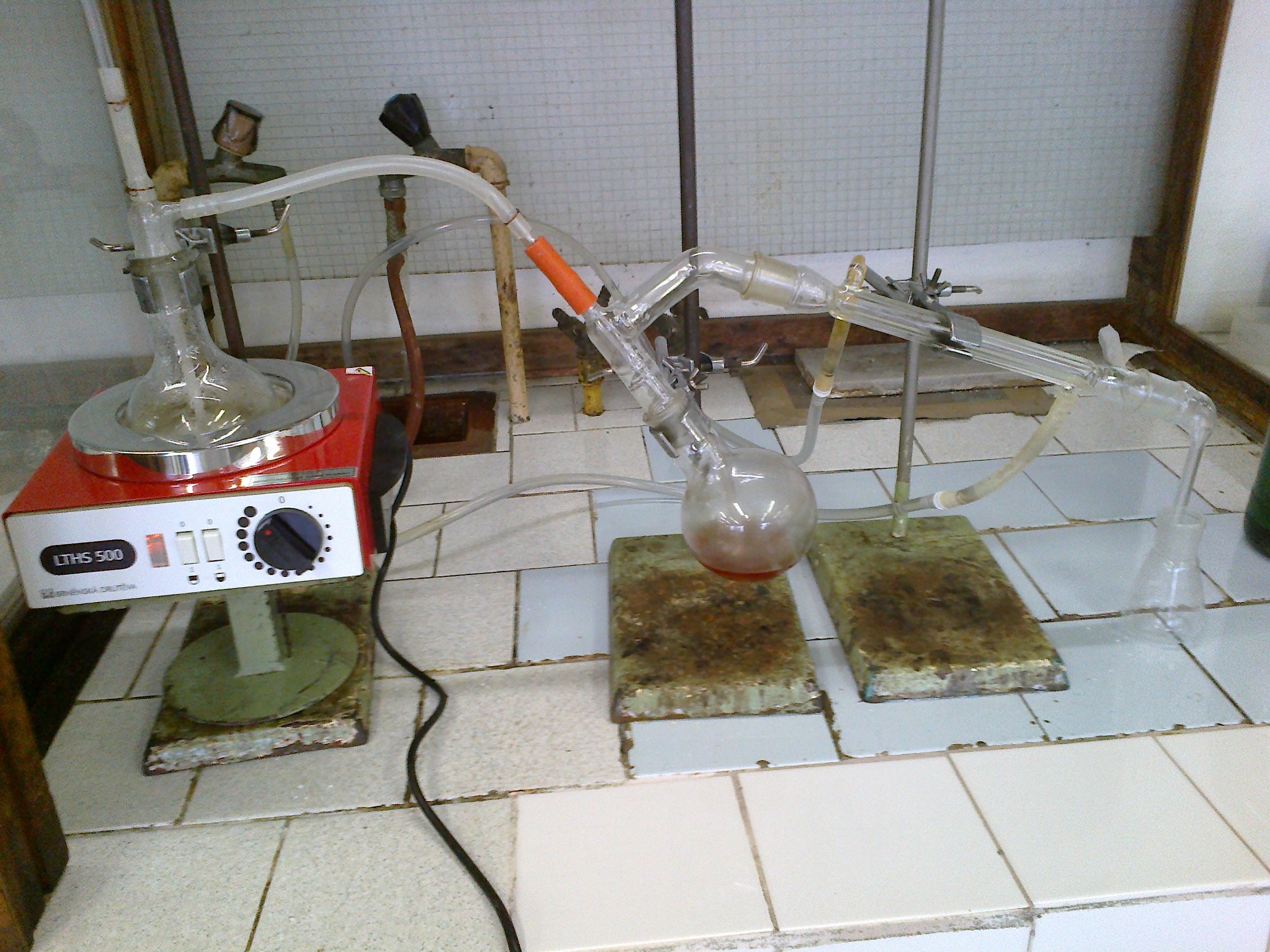 Steam distillation apparature. Photo taken at Slovak University of Technology.